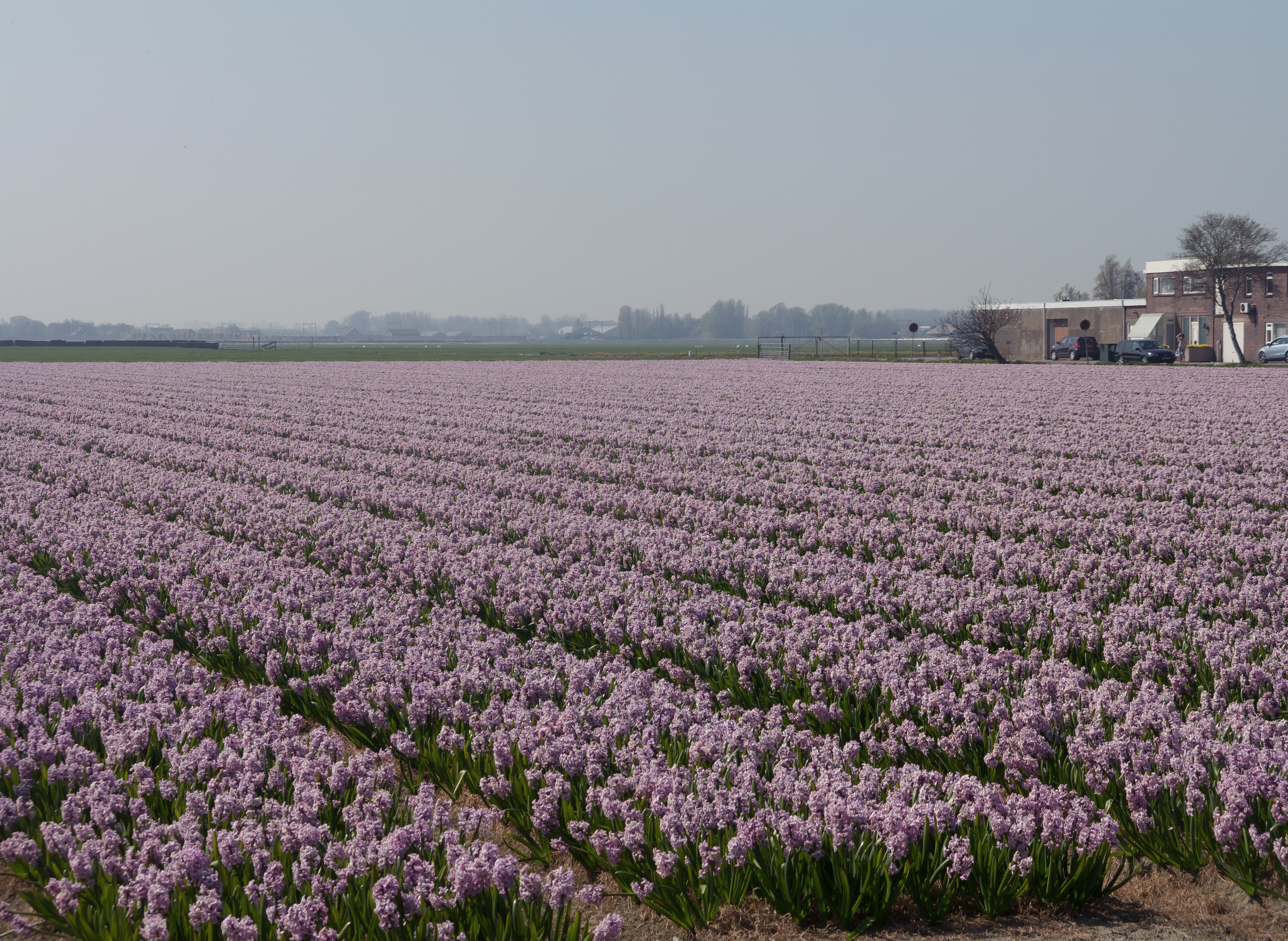 Voorhout, hyacinths in the field